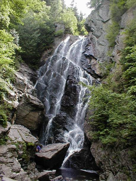 Angel Falls, near Oquossoc, Maine, USA. J Freeman.